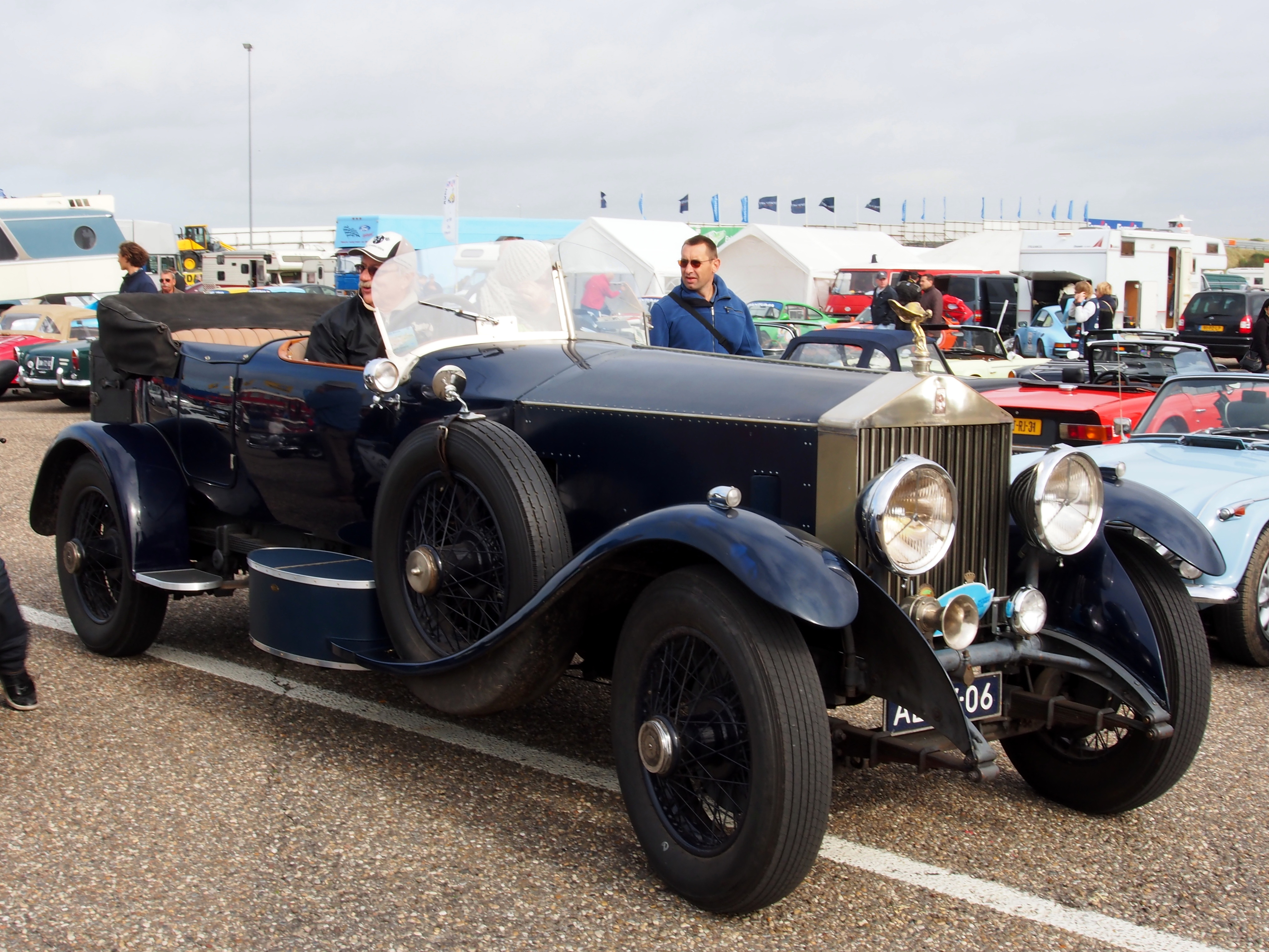 Photographed at the Nationaal Oldtimer Festival Zandvoort 2012. 1928 Rolls Royce 3 doors Tourer.